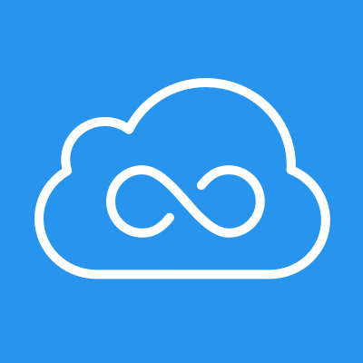 JSFiddle logo